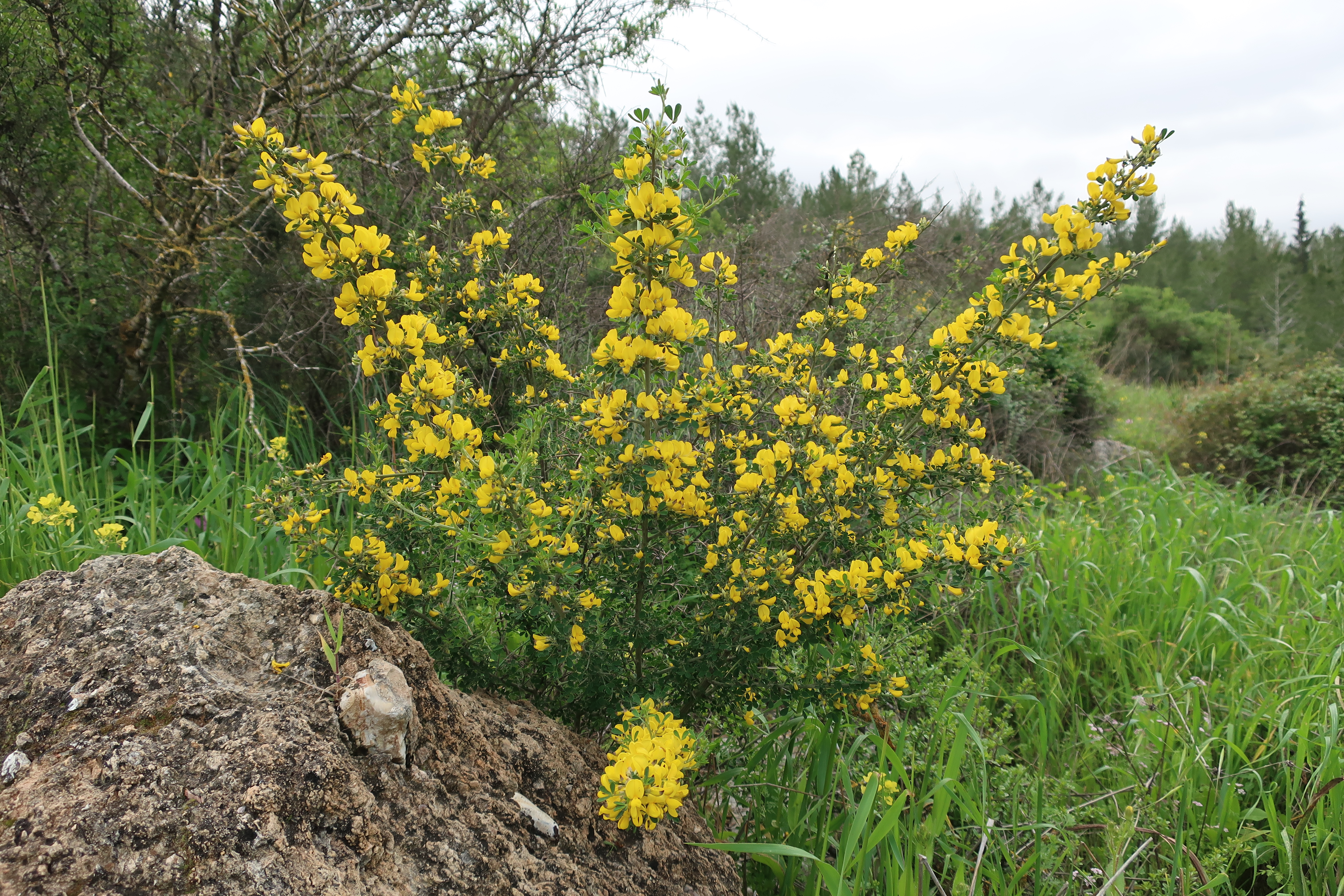 Spiny broom in blossom in the Judean mountains (Israel)